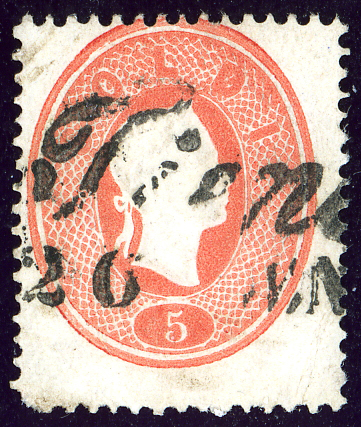 Stamp of Lombardy-Venetia, 5 soldi issue 1861, linear cancelled Tiene, Mueller type sL-R, Veneto Region, Italy. Mi12.